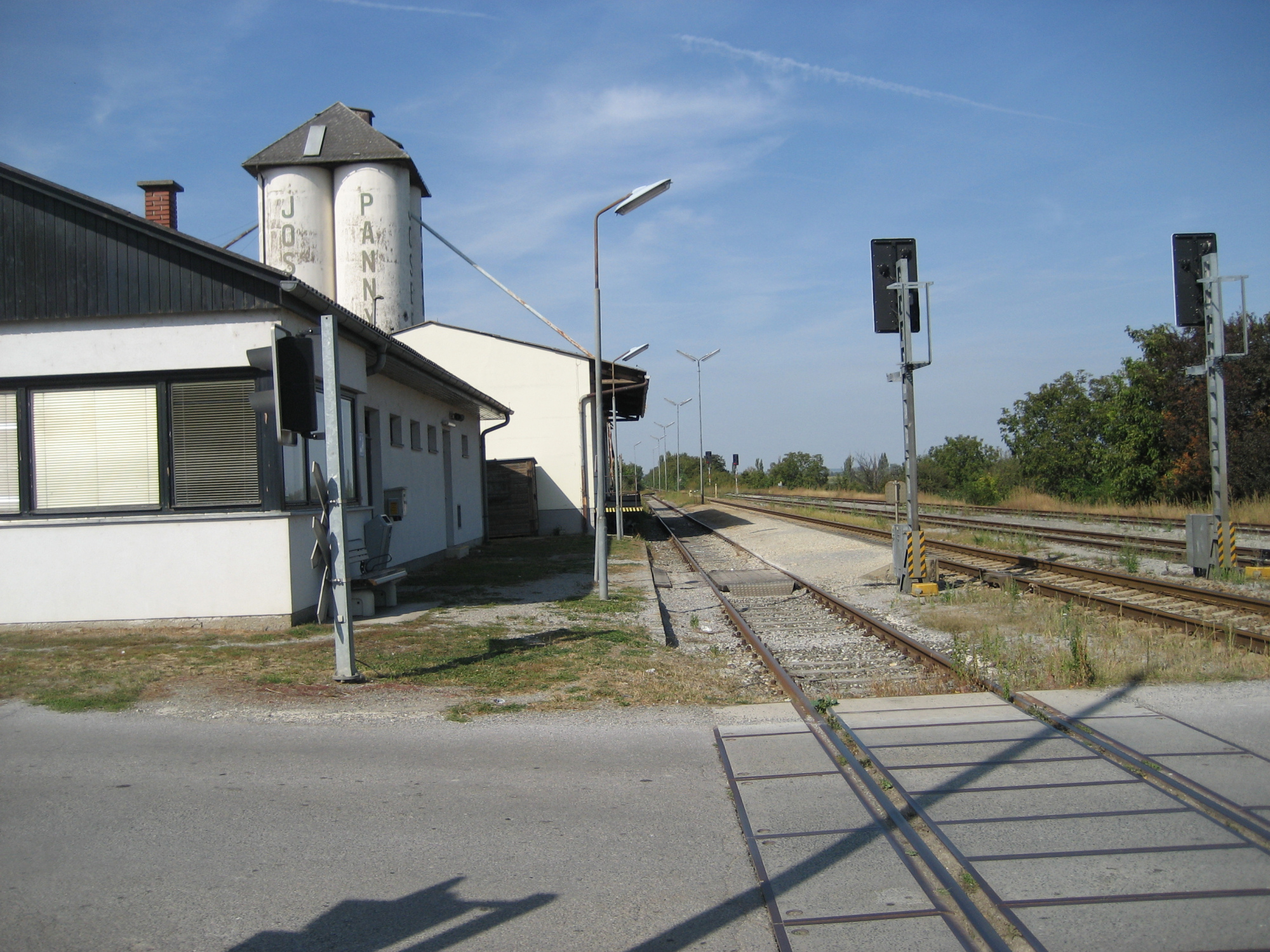 Train station Oberweiden in Lower Austria